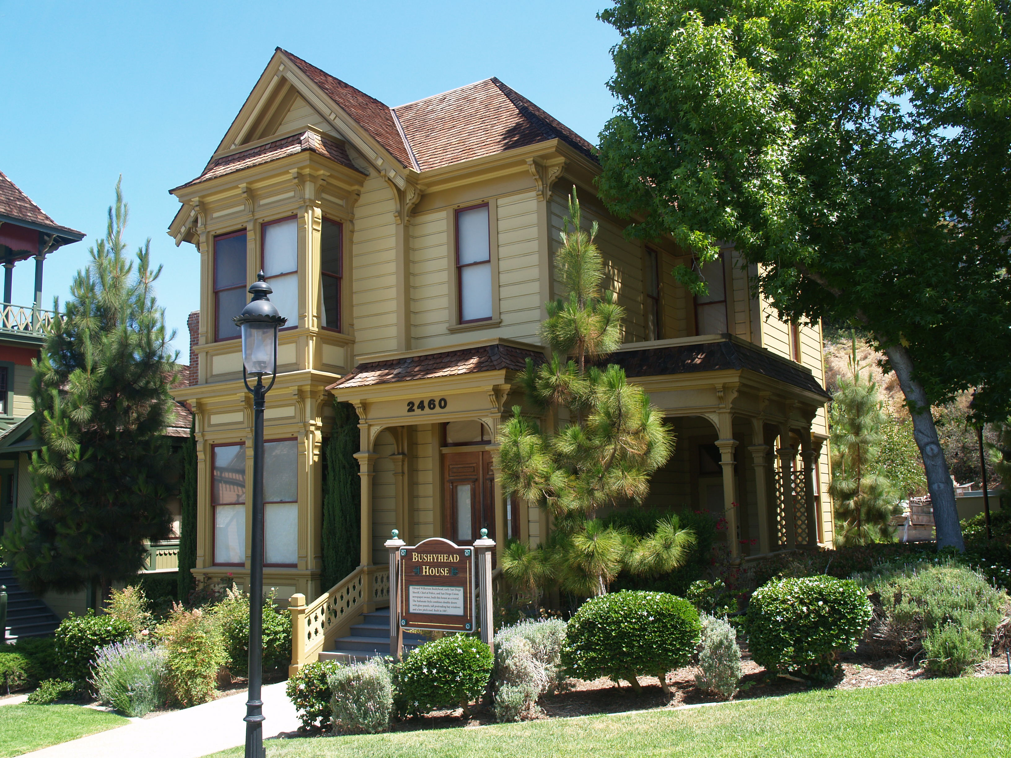 Bushyhead House: Edward "Ned" Wilkerson Bushyhead, an early San Diego sheriff, chief of police and San Diego Union newspaper owner, built this Italianate residence in 1887 Attribution to: Phil Konstantin